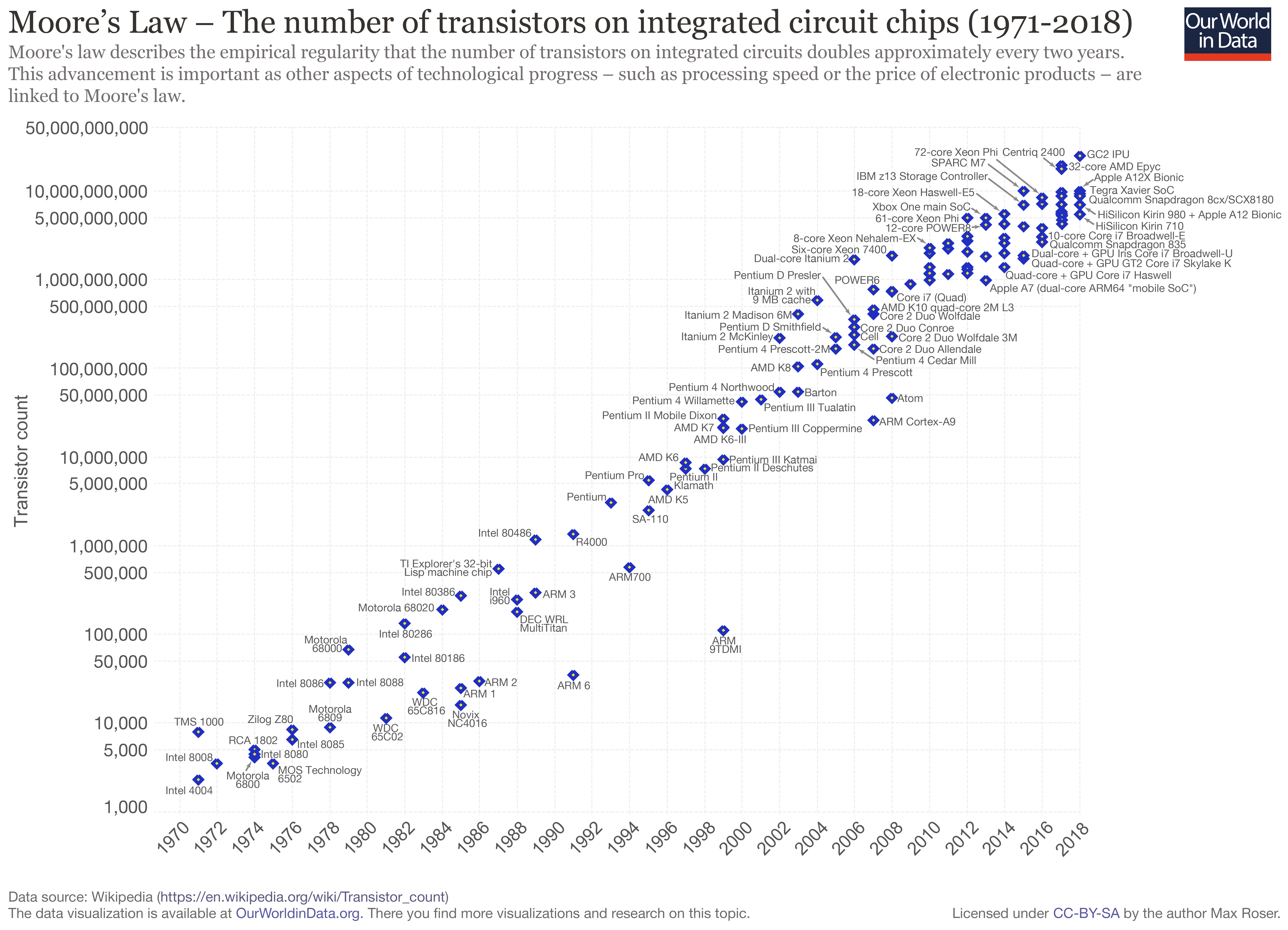 Data Author: Max Roser URL